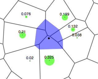 Natural neighbour interpolation. The coloured circles. which represent the interpolating weights, wi, are generated using the ratio of the shaded area to that of the cell area of the surrounding points. The shaded area is due to the insertion of the point to be interpolated into the Voronoi tesselation.